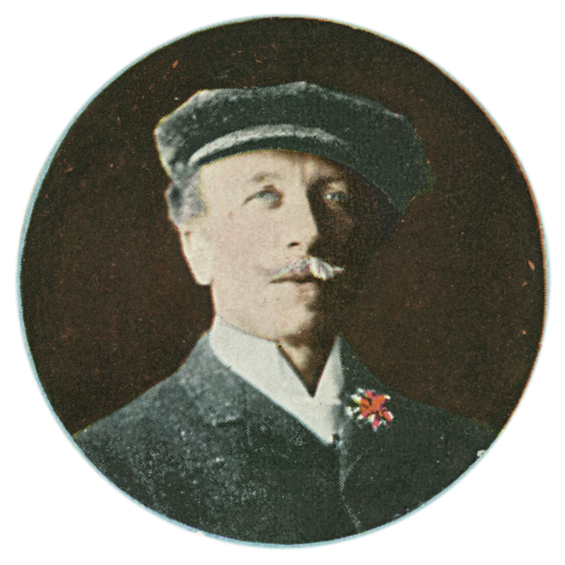 Paul de Longpré. Inset from a postcard.